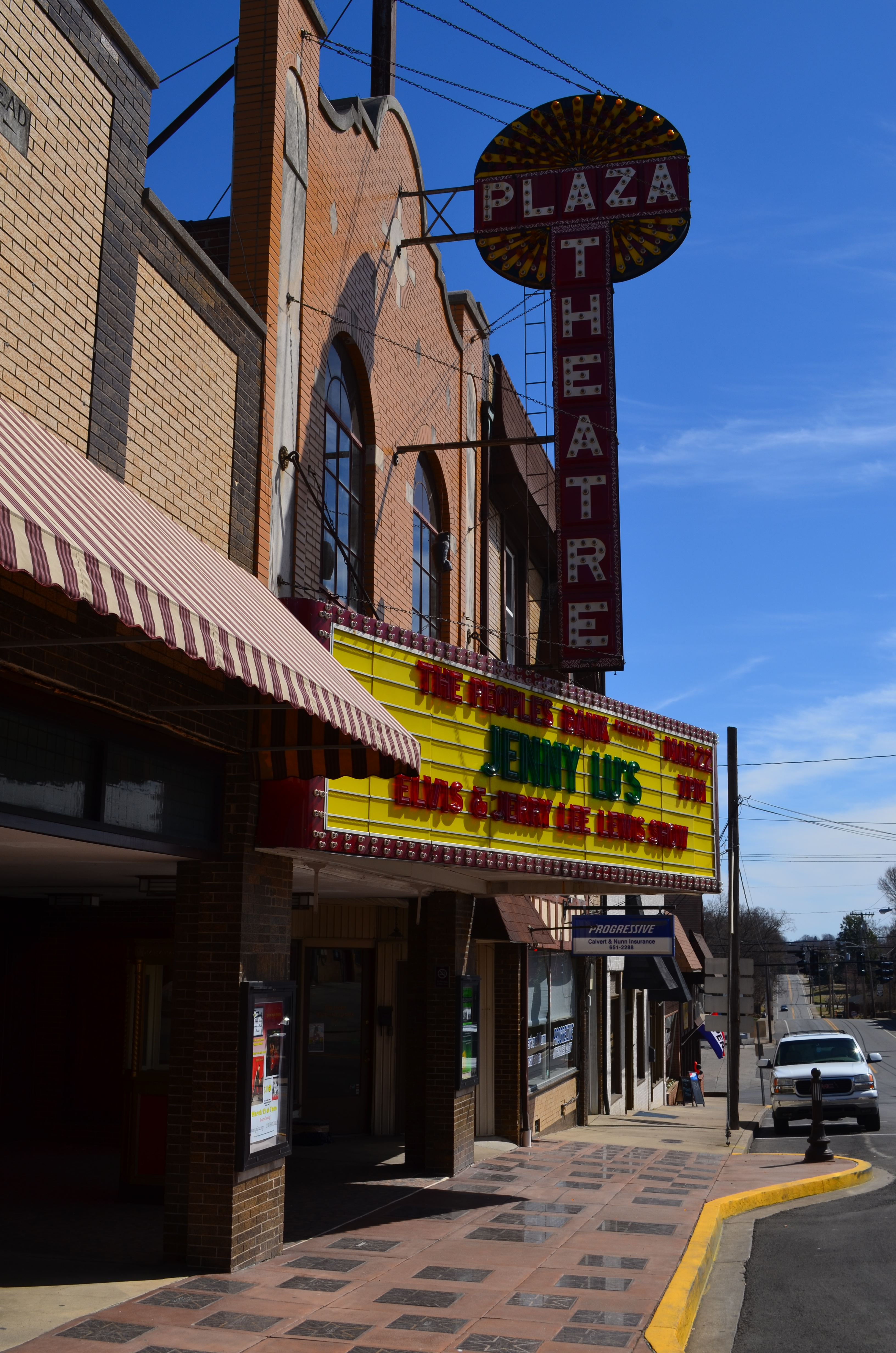 Plaza Theater in Glasgow Kentucky